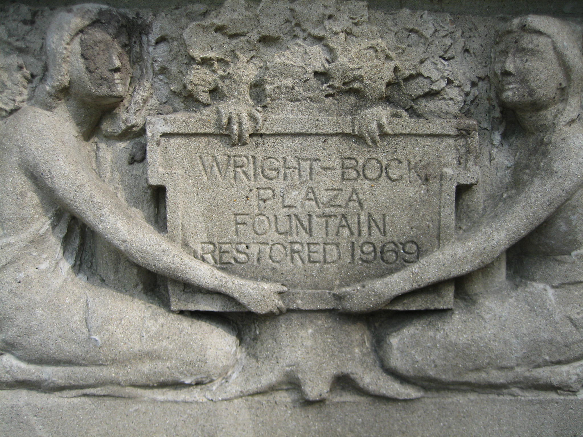 Horse Show Fountain, architect Frank Lloyd Wright, sculptor Richard Bock. 1909, relocated and restored 1969. Currently located in Scoville Park, Oak Park, Illinois. The park is listed on the U.S. National Register of Historic Places.